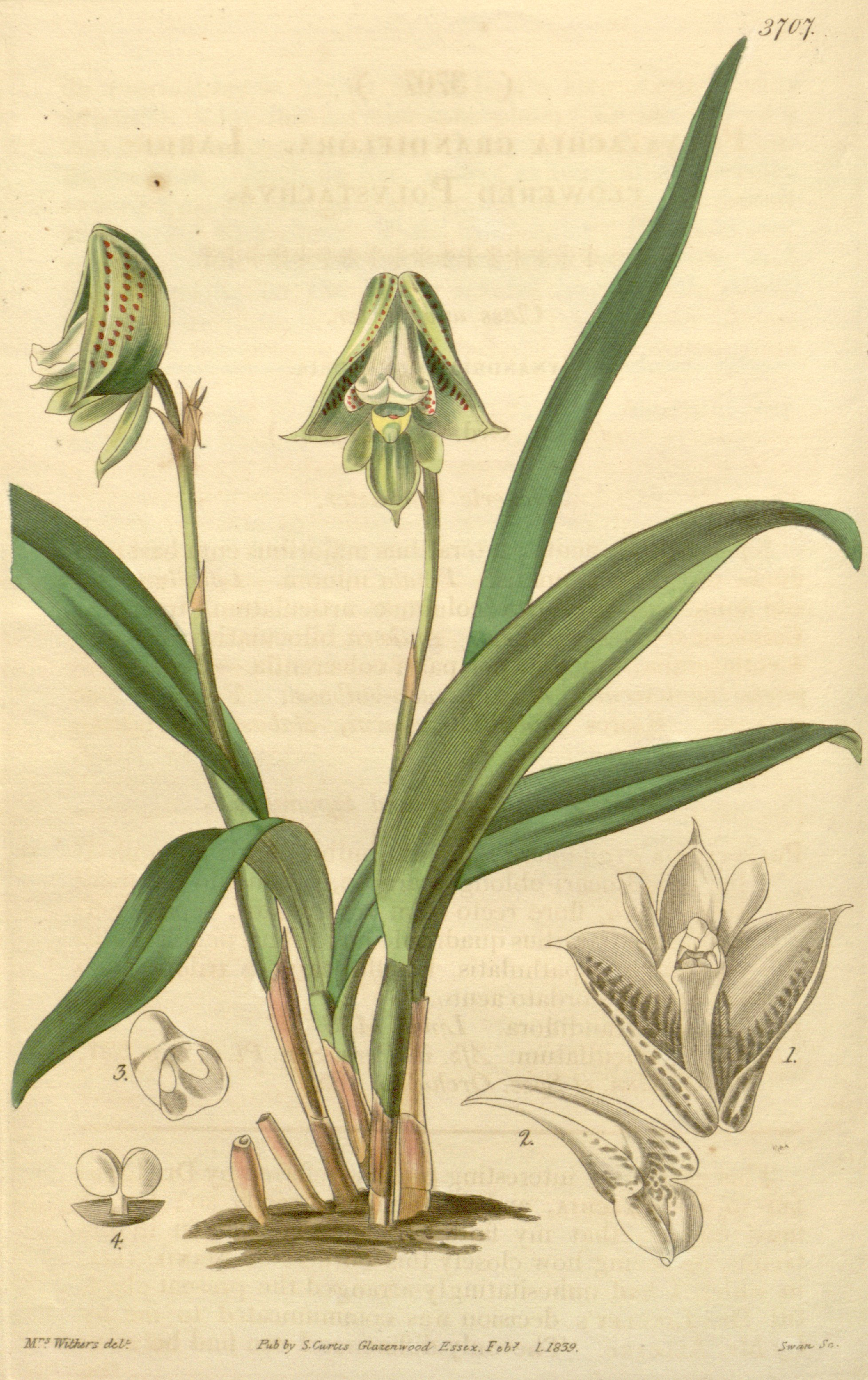 Illustration of Polystachya galeata var. galeata (as syn. Polystachya grandiflora)